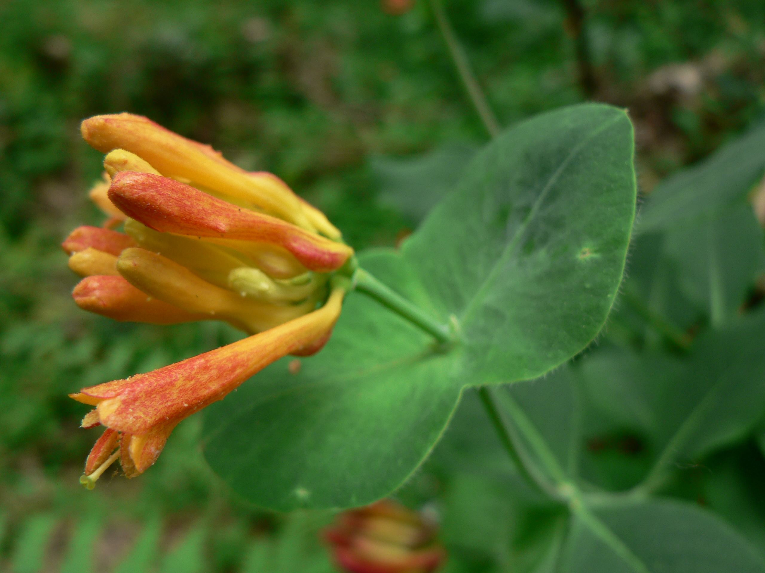 Orange Honeysuckle